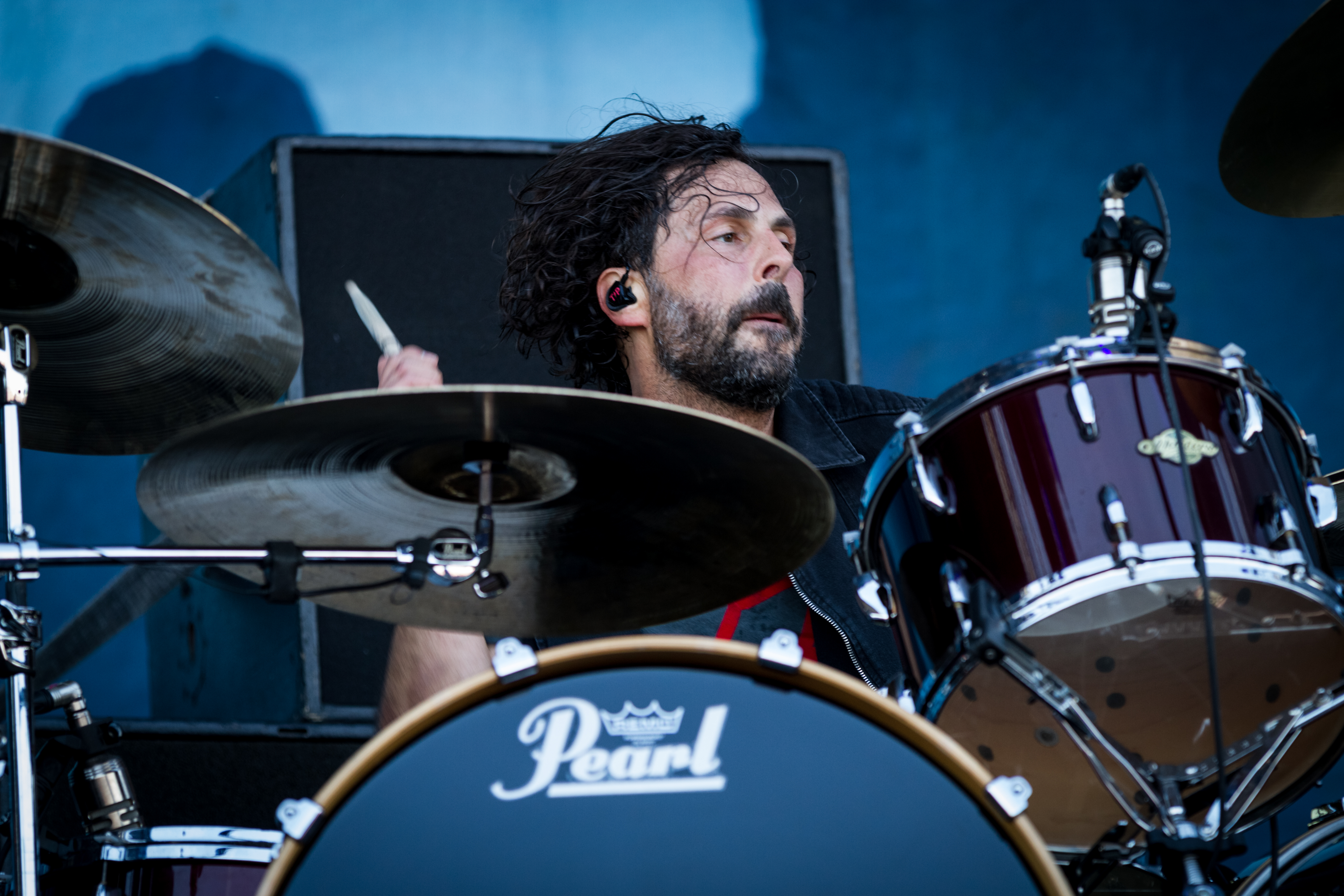 Papa Roach - Rock am Ring 2015